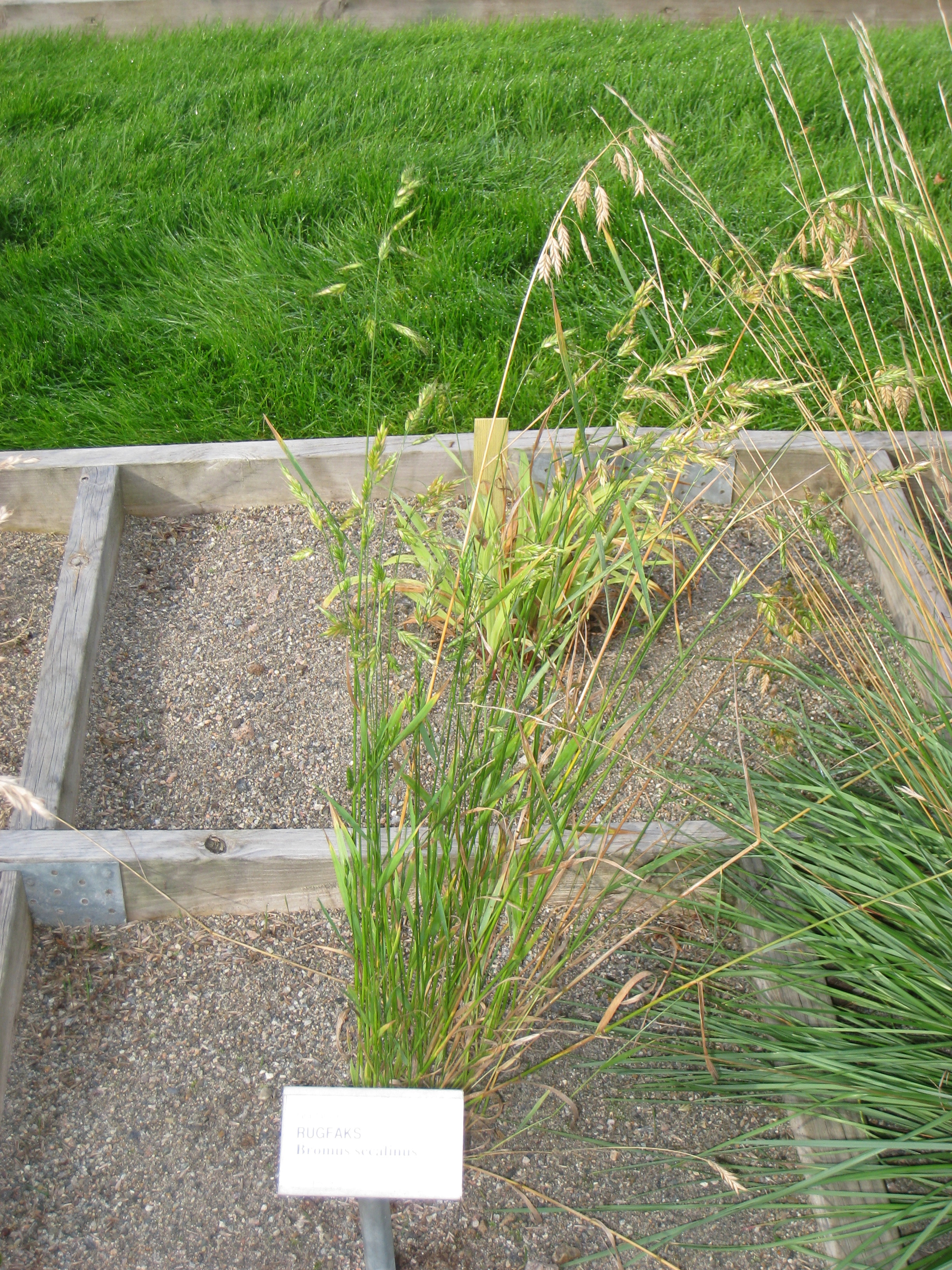 Bromus secalinus - Oslo botanical garden, Oslo, Norway.